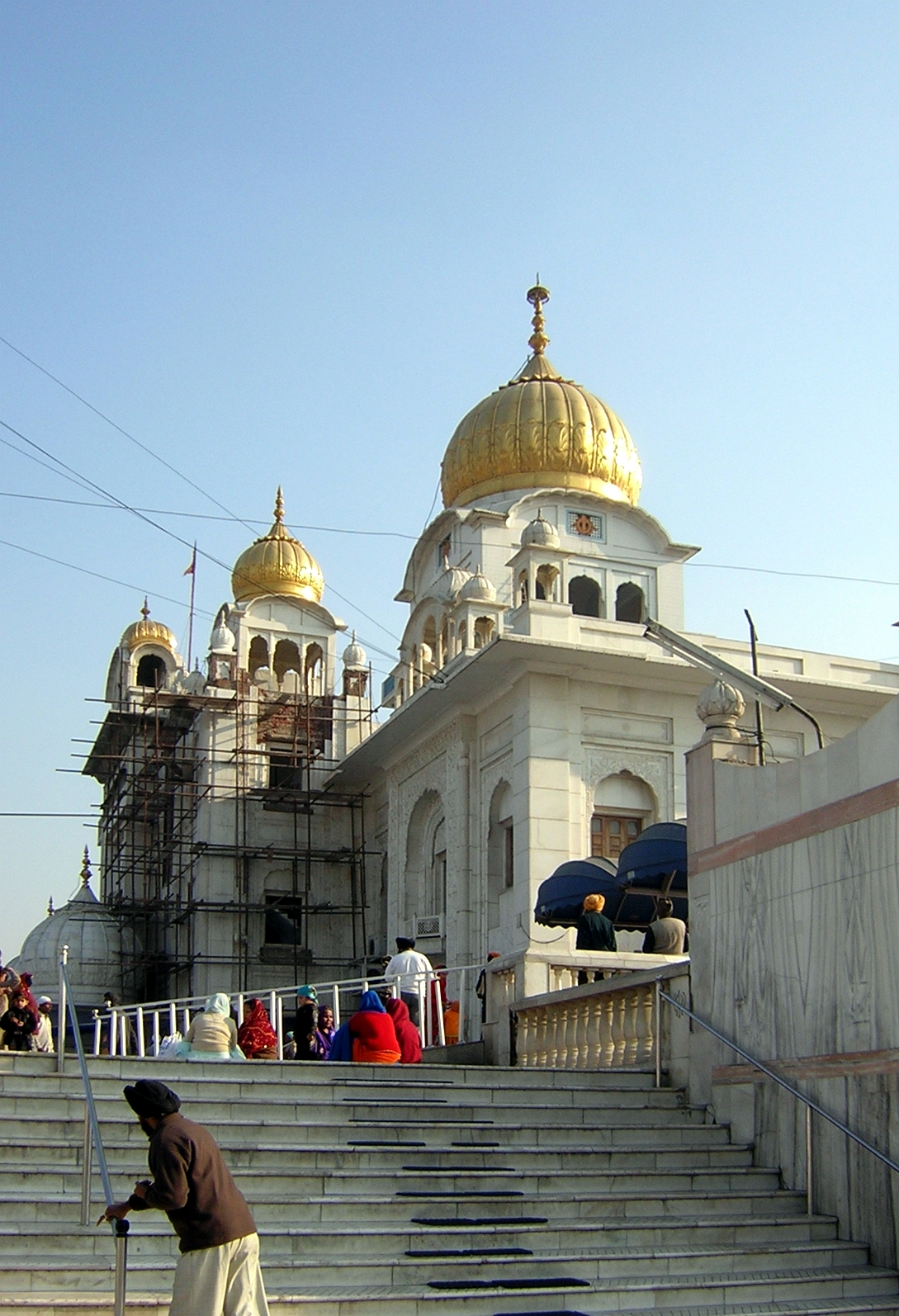 Bangla Sahib in New Delhi, India